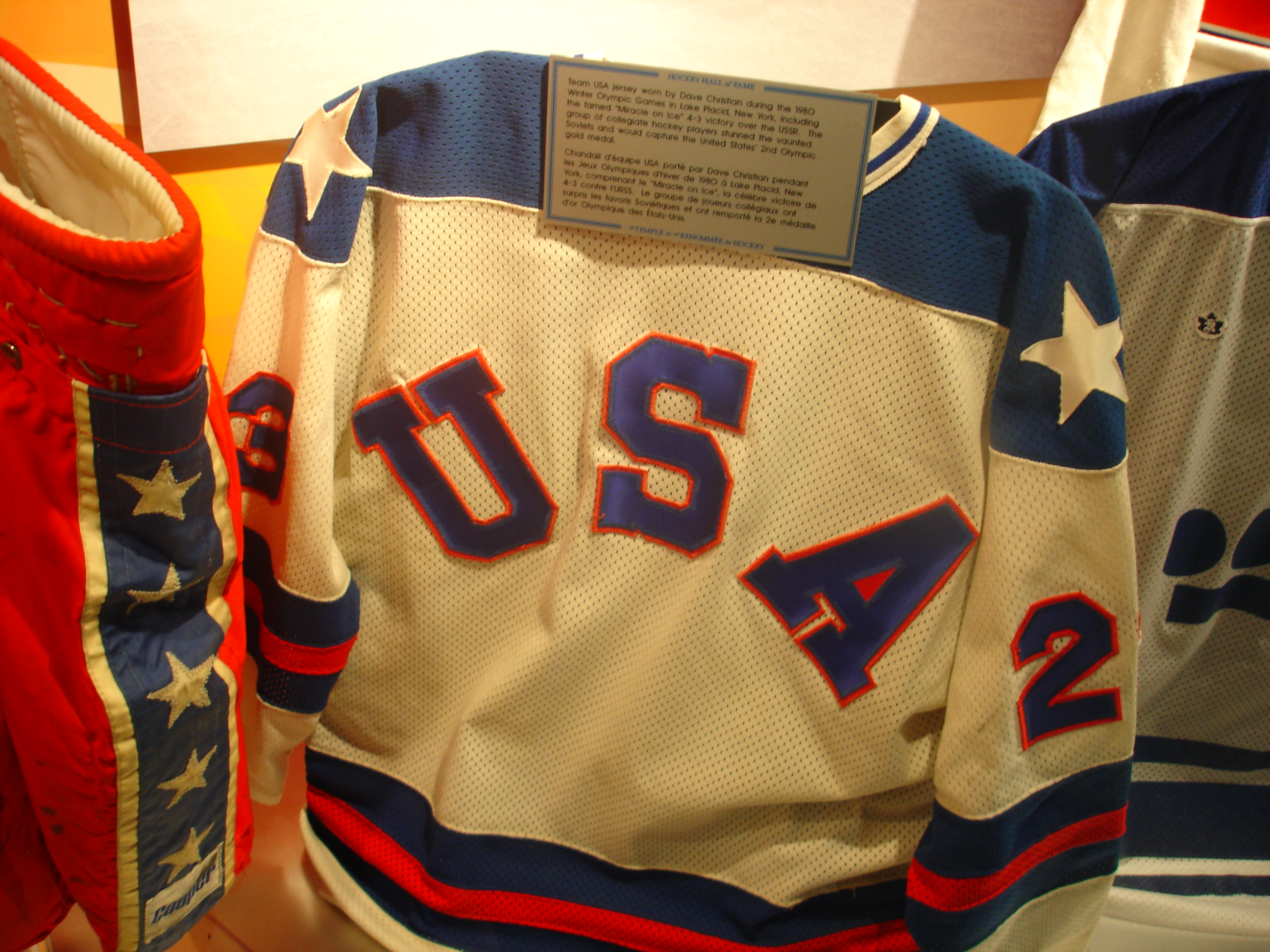 The jersey worn by Dave Christian of the Team USA "Miracle on Ice" squad during the 1980 Winter Olympics on display in the Hockey Hall of Fame.